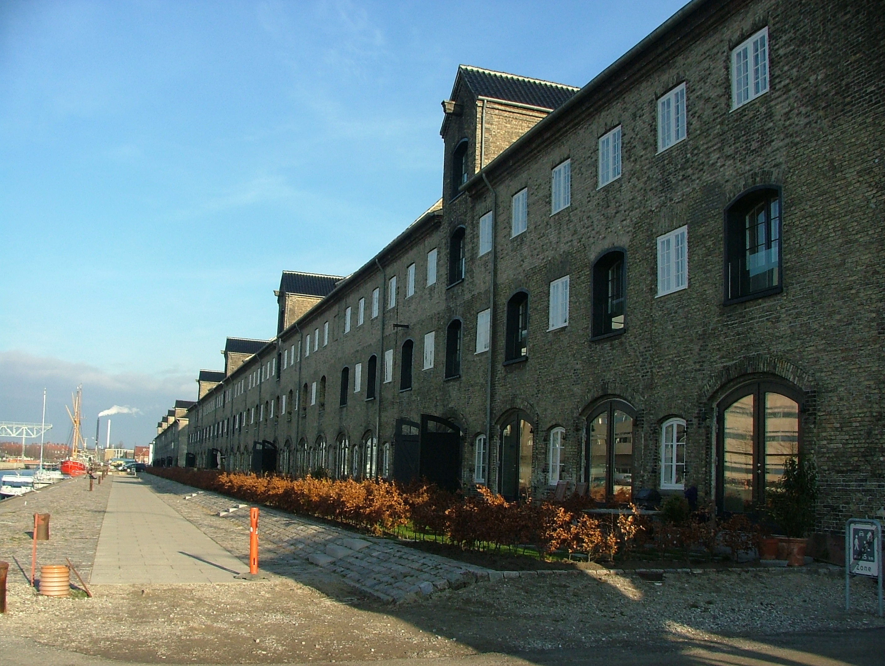 Photos from the former Naval Base Copenhagen: Old warehouses used for storing ships riggings Photo by Jan Kronsell, 2005